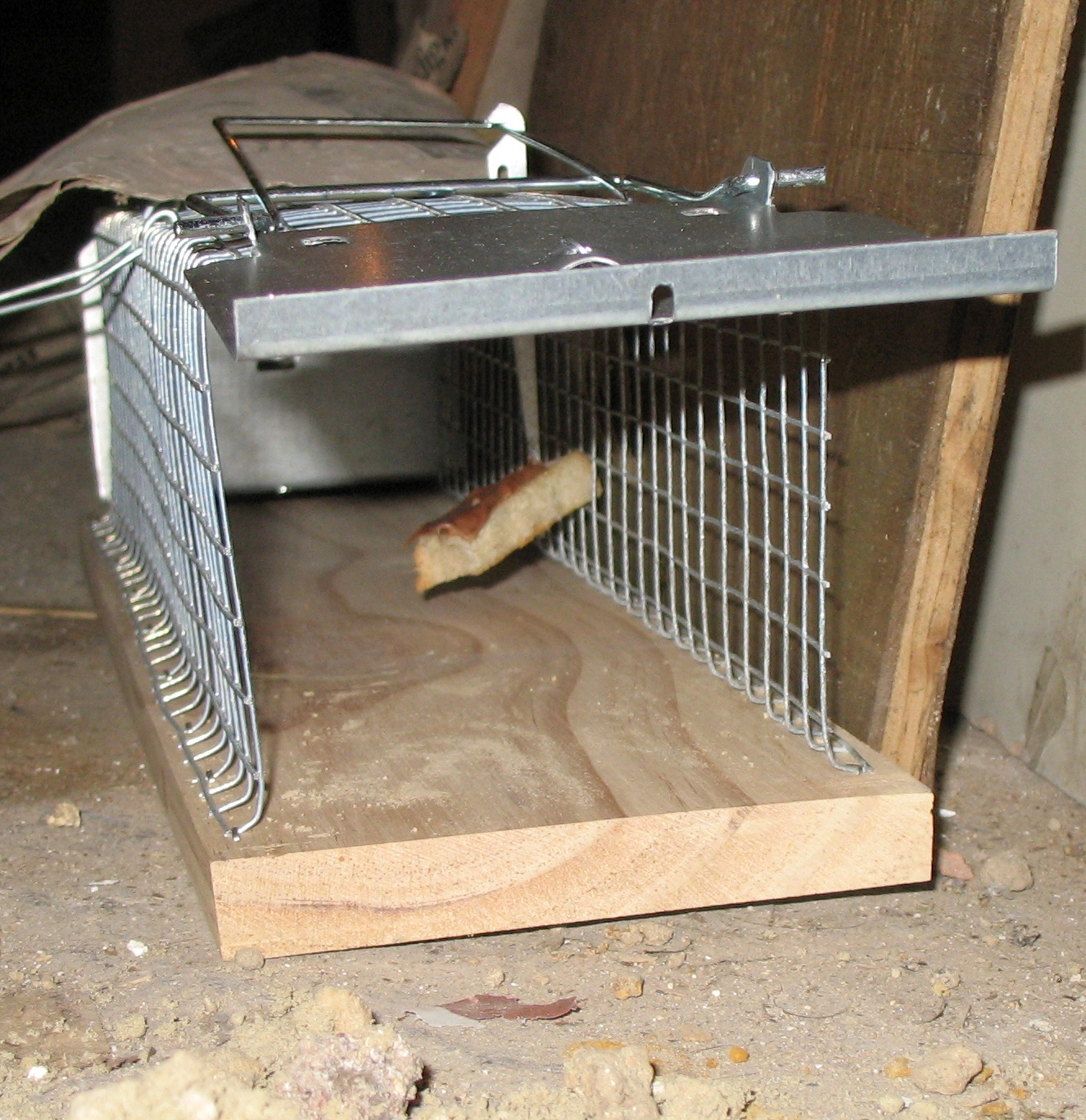 Live-catch cage rat trap set with a piece of bread with Nutella-like chocolate spread as rat bait